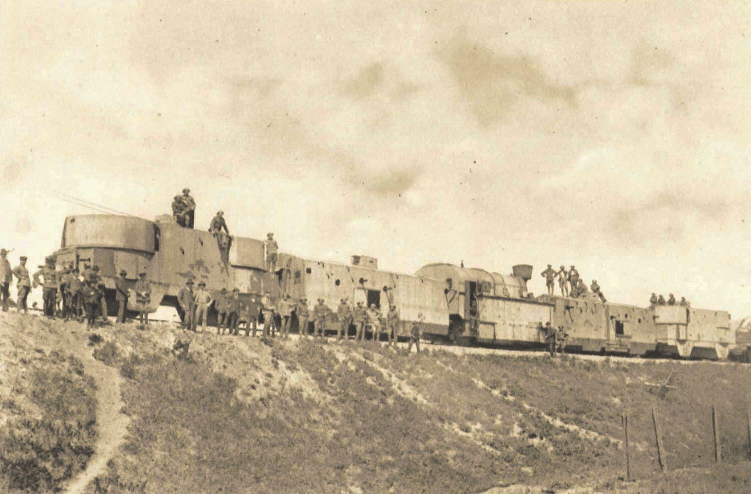 Czechoslovak armoured train on the Hungarian Front in 1919.